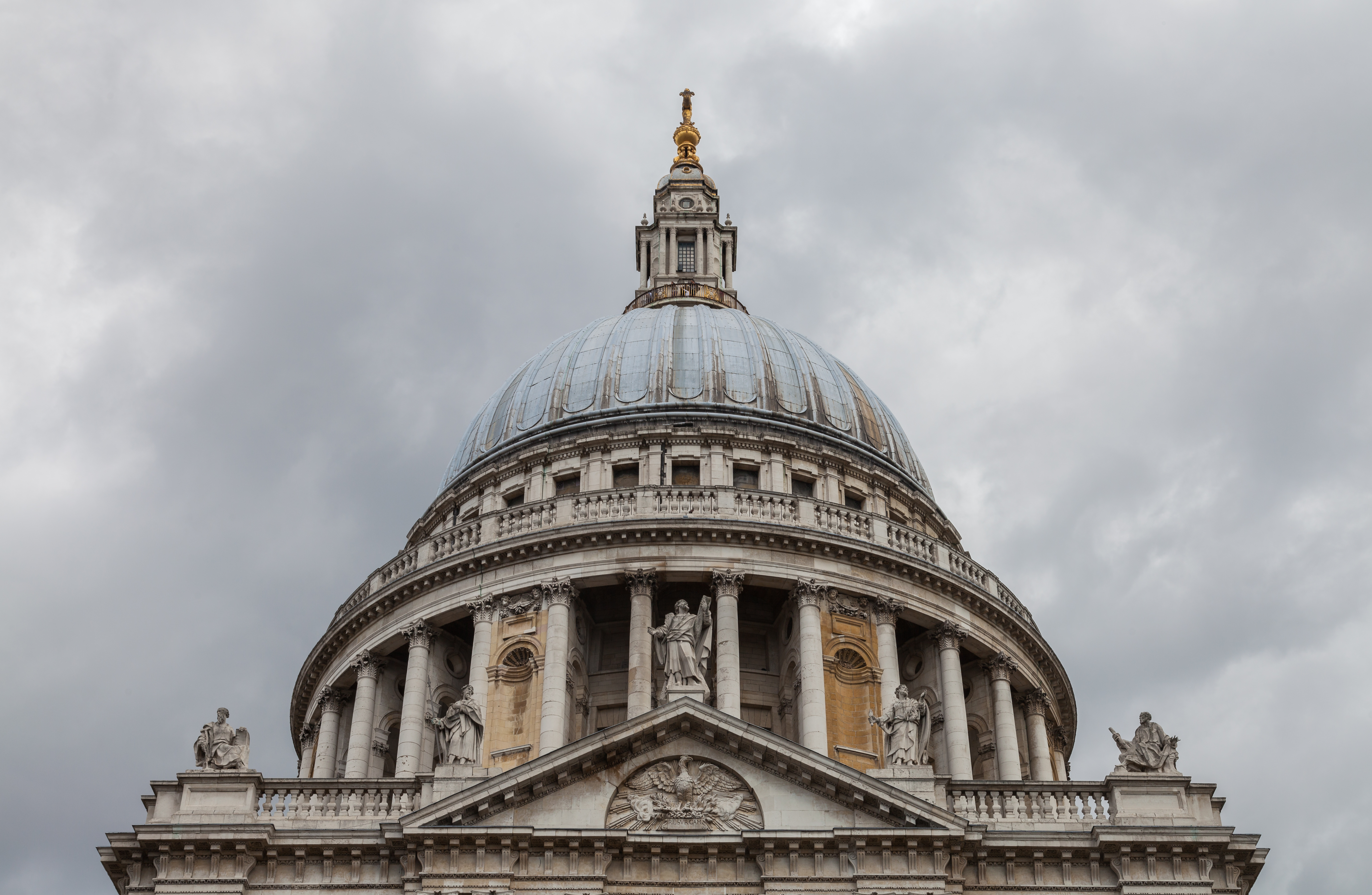 St Paul's Cathedral, London, England